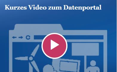 Screenshot from EUODP